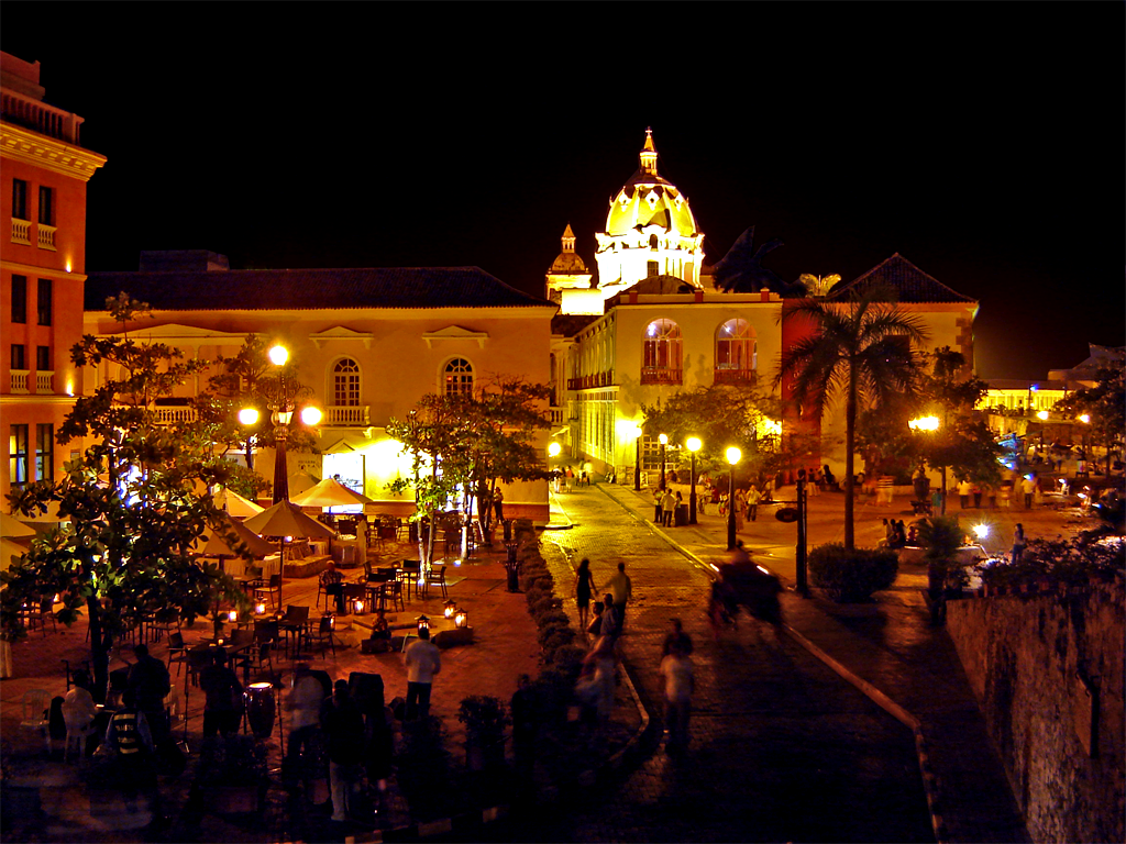 Cartagena de Indias (Colombia) at night. Some shadows were fixed using photoshop.